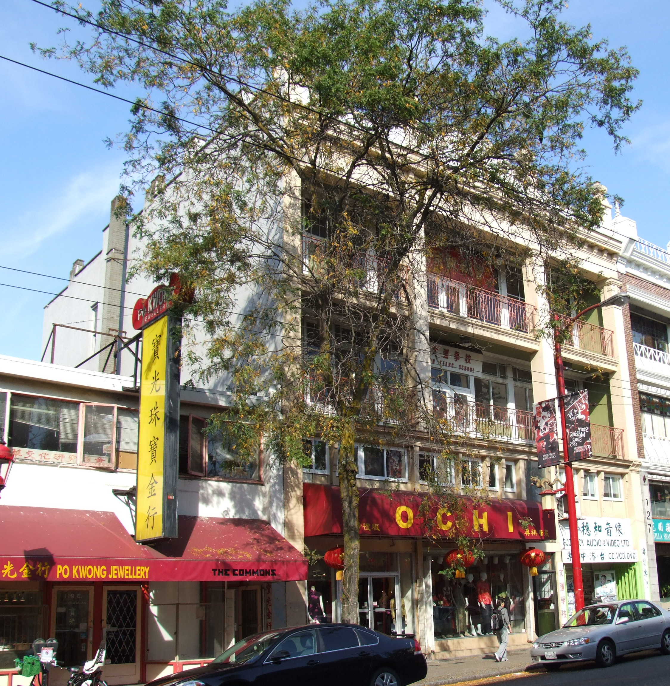 Chinese School